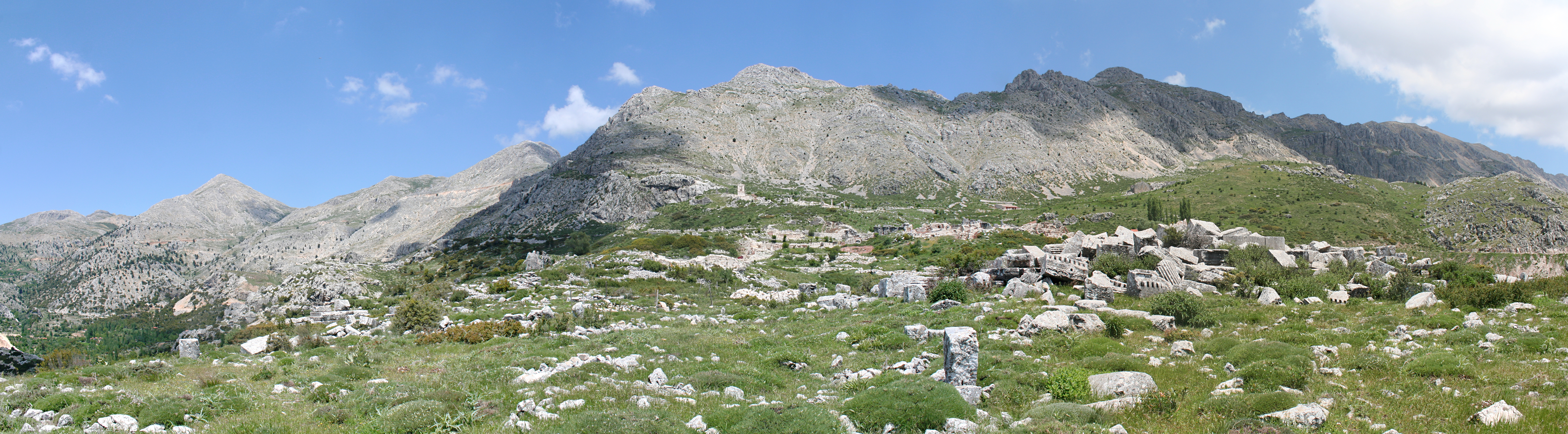 Overview of ruins of Sagalassos